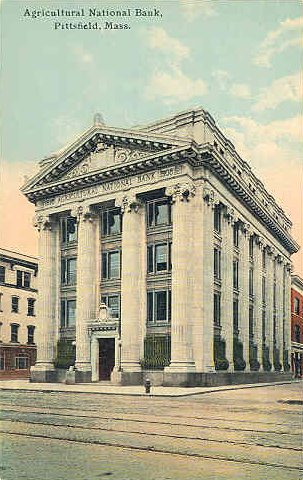 Turn of 20th century postcard, Agricultural National Bank in Pittsfield, Berkshire County, Massachusetts, F.M. Kirby & Co, No. A-20106.